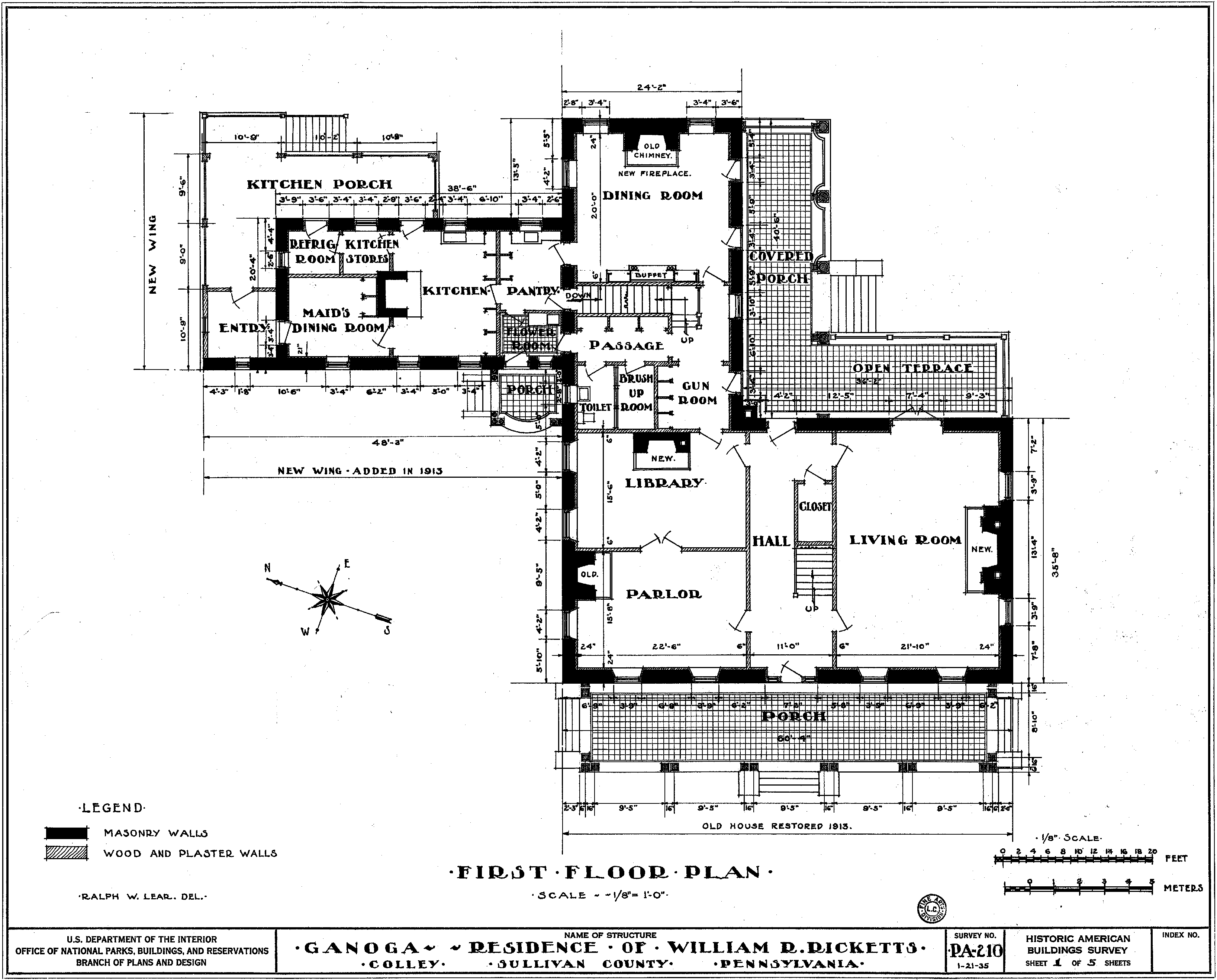 Floorplan of the Clemuel Ricketts Mansion, located on Ganoga Lake near Lopez in Colley Township, Sullivan County, Pennsylvania, United States. Built in 1852, the Georgian mansion was added to the National Register of Historic Places on 9 June 1983.